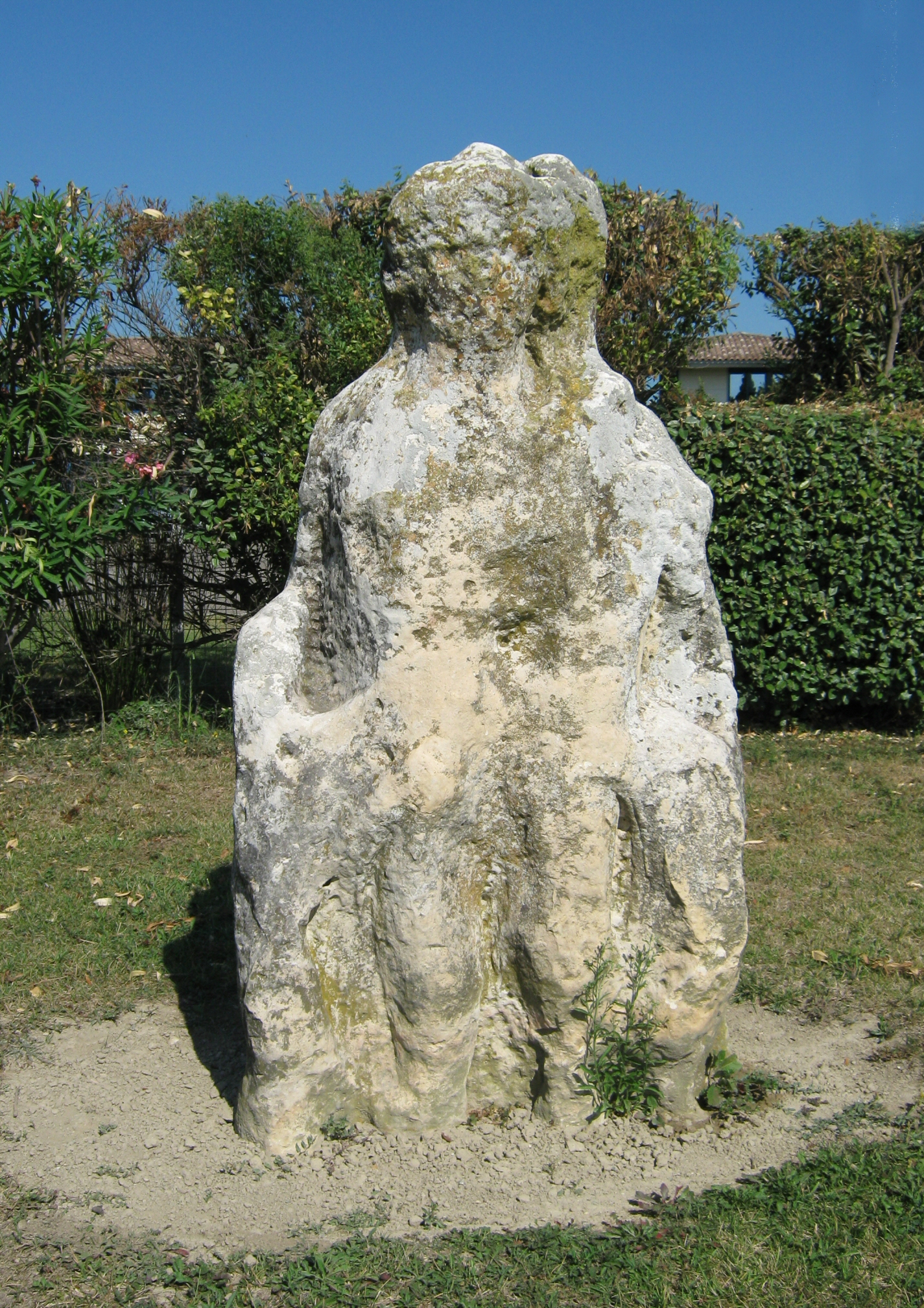 La Mourgue statue in St-Etienne-du-Grès (13103)